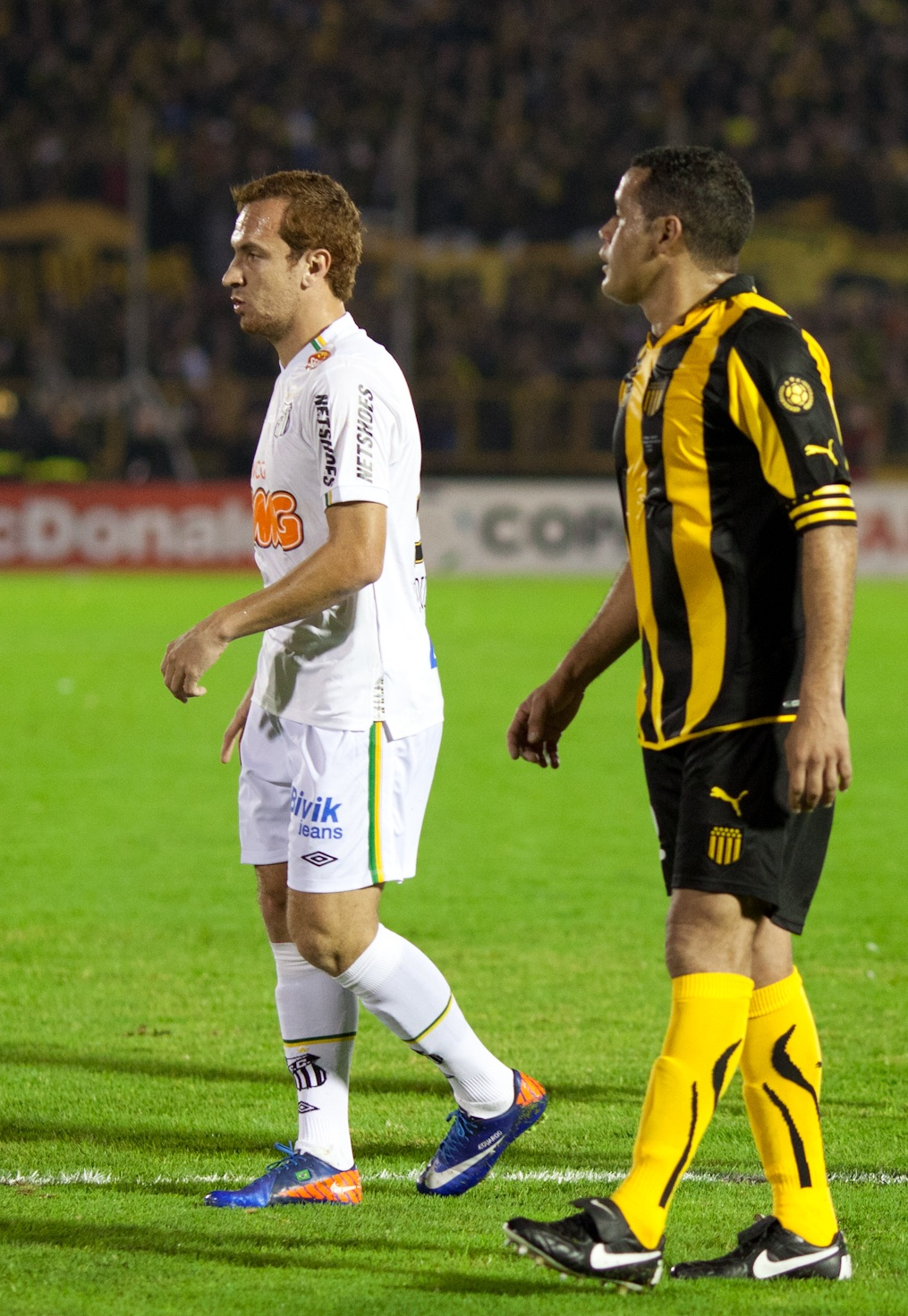 Darío Rodríguez of Peñarol and Zé Eduardo of Santos during the first leg of the 2011 Copa Libertadores final between Peñarol and Santos, at the Centenario stadium.